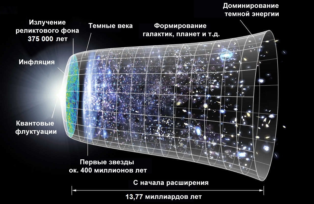 Russian version of File:CMB Timeline300 no WMAP.jpg